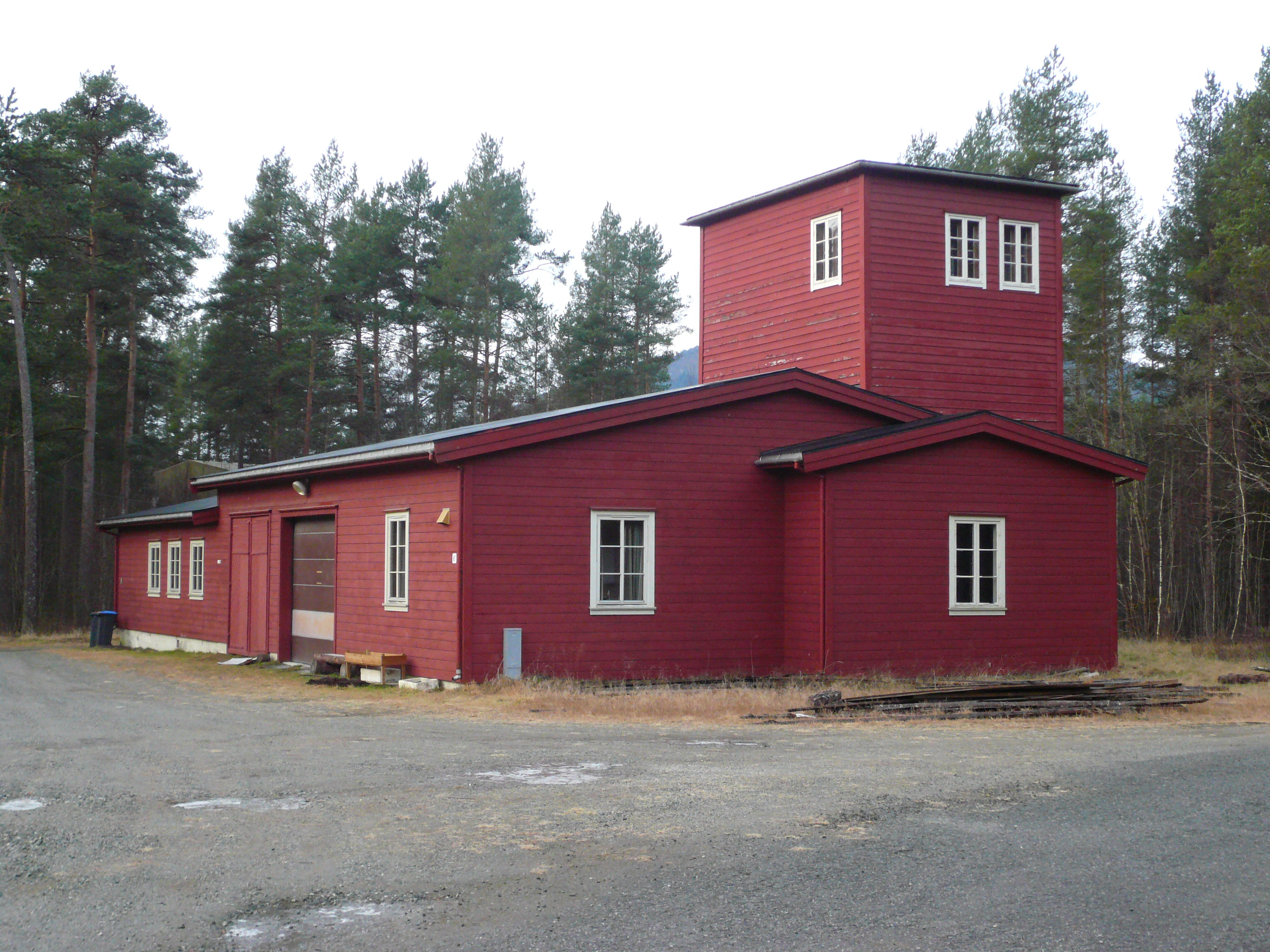 Bømoen, Voss, Norway